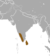 Stripe-necked Mongoose (Herpestes vitticollis) range